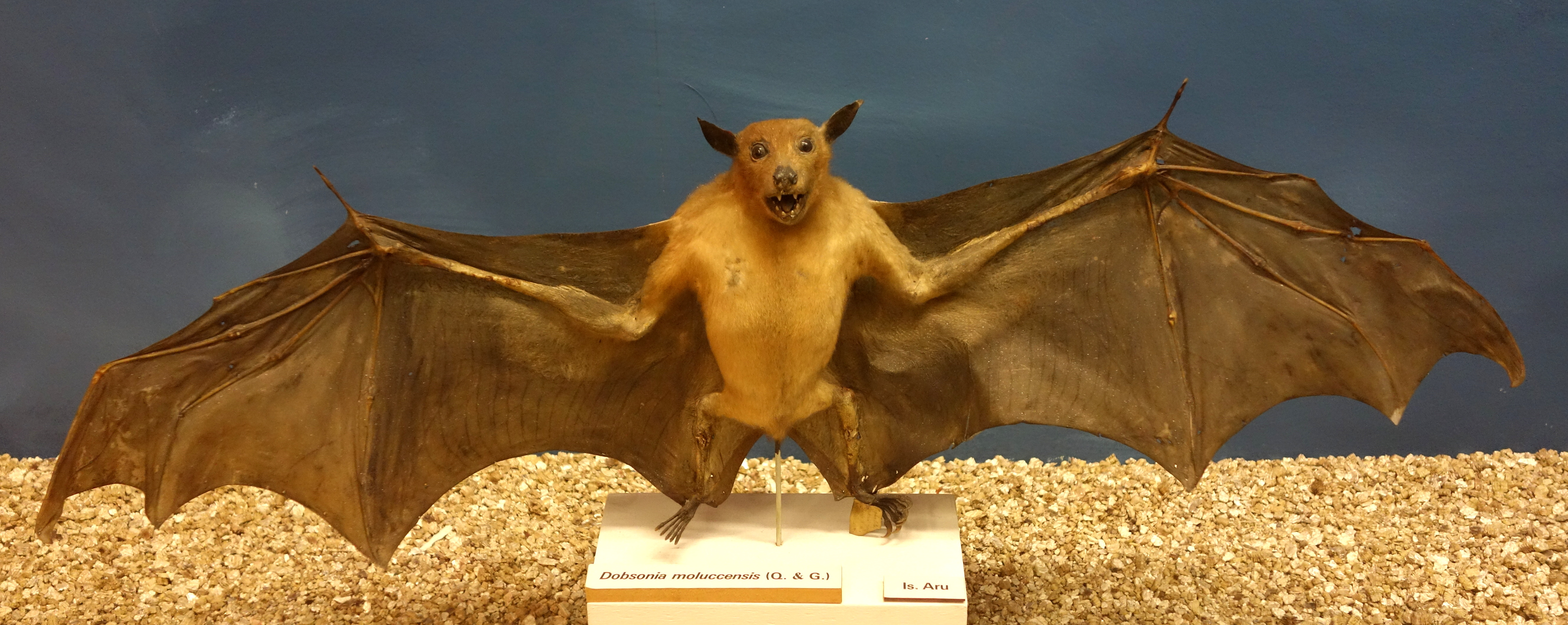 Exhibit in the Museo Civico di Storia Naturale di Genova, Via Brigata Liguria, 9, 16121, Genoa, Italy.